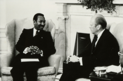 Ambassador André Joseph Wright.